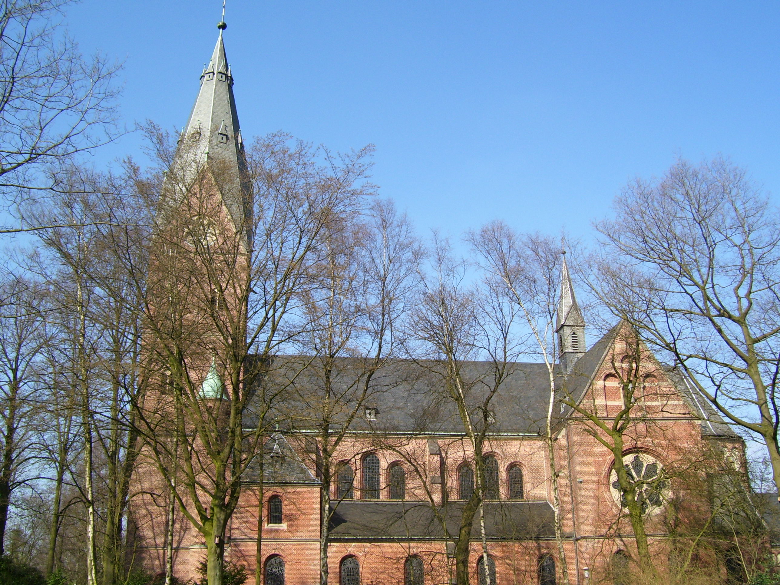 St Pancras, Gütersloh, Germany